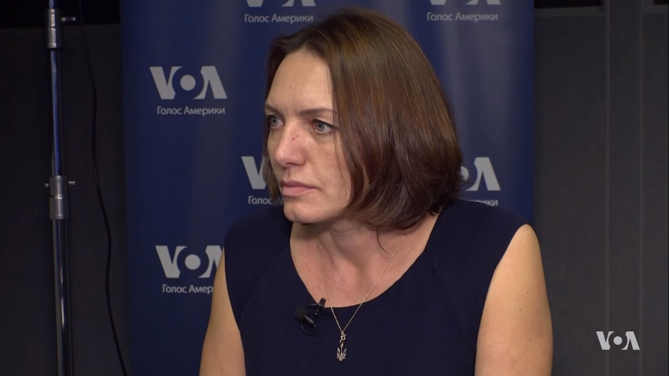 VOA Contributor Greta Van Susteren interviews a VOA journalist Myroslava Gongadze (on photography) from Ukrainian Service about their life’s journey. May 24, 2018